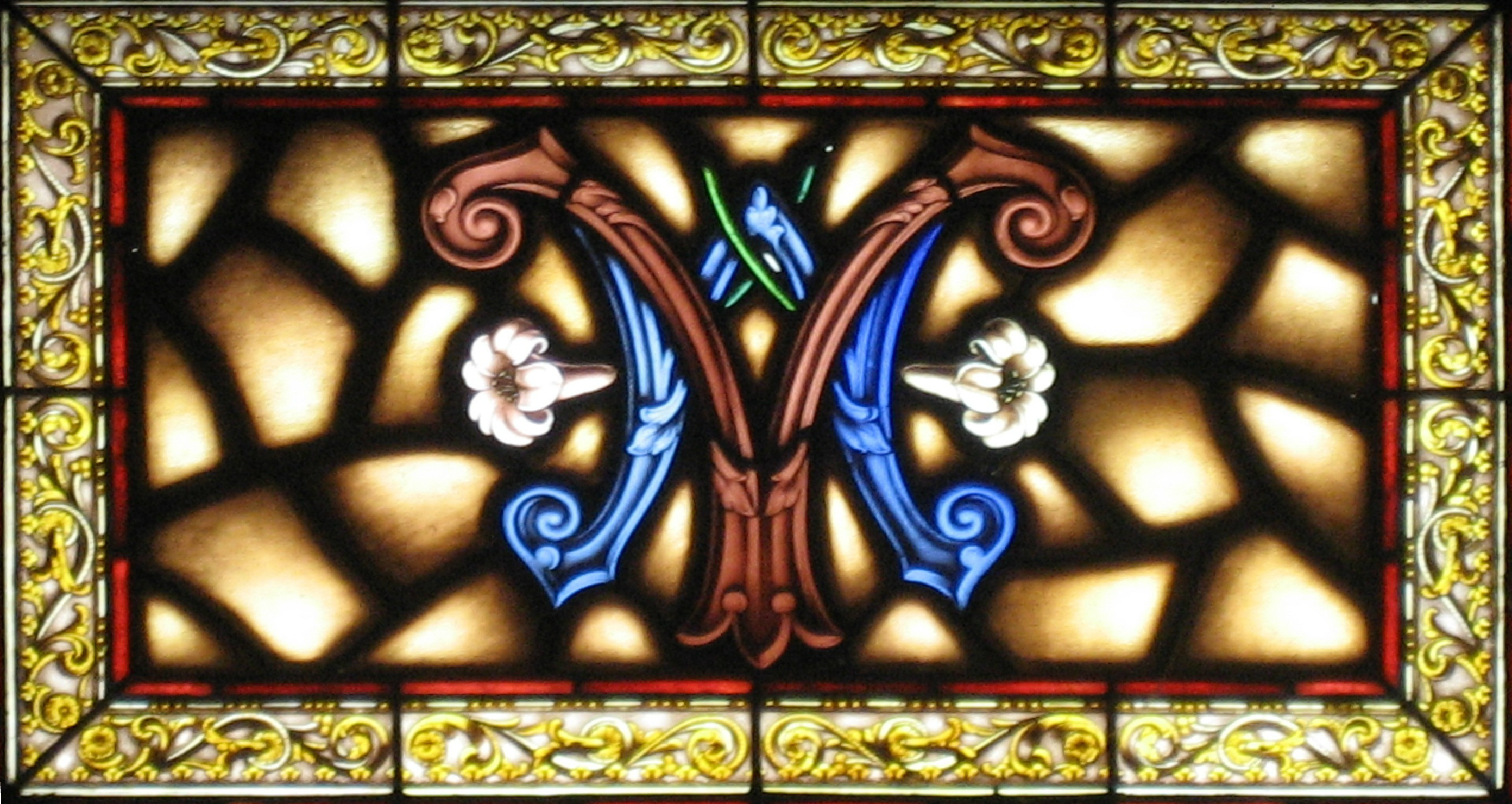 Stained glass window of monogram in the San José de Jatibonico Church sanctuary, in Jatibonico, Cuba.